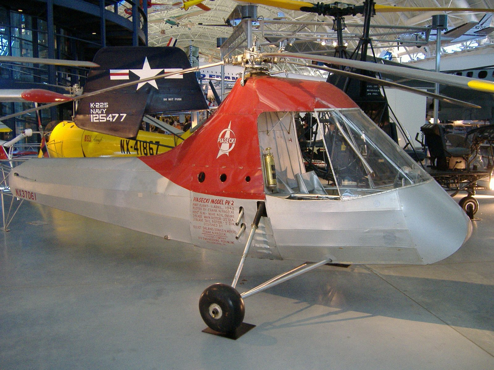 P-V Engineering Forum PV-2 at National Air and Space Museum